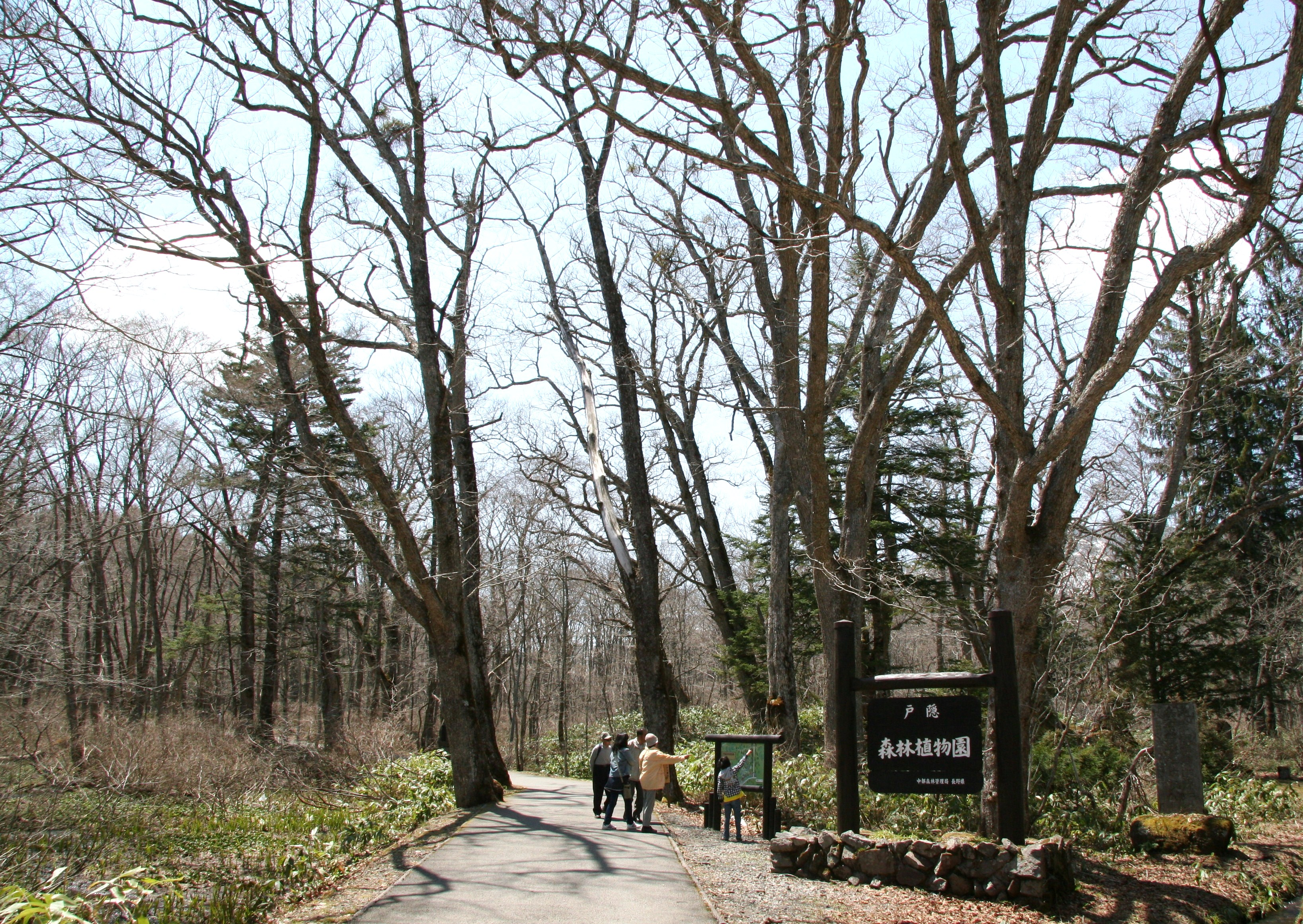 Entrance to Togakushi Shinrin Shokubutsu En (Togakushi Forest Botanical Garden)